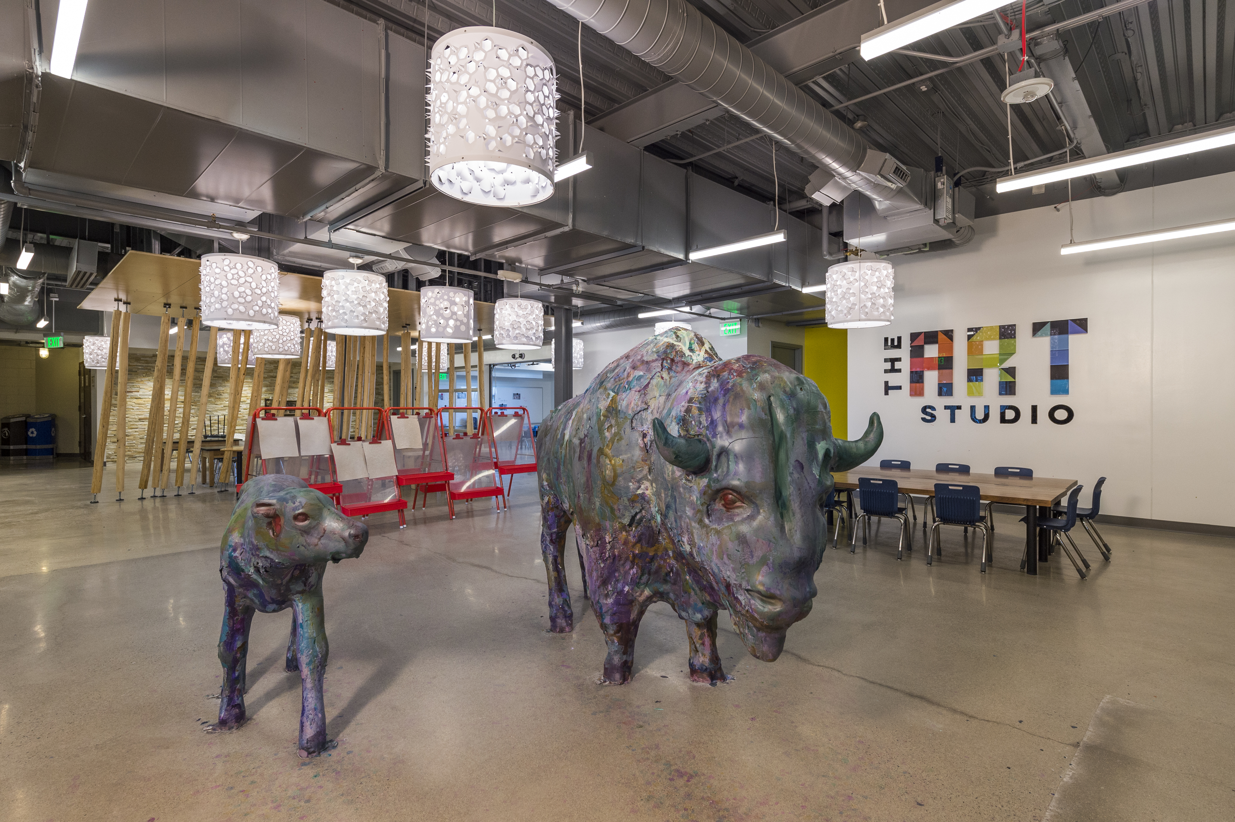 The Art Studio